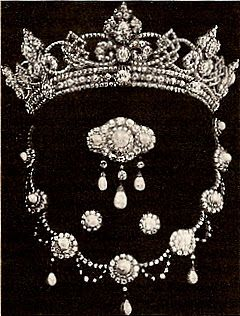 The wedding gift of the Prince of Wales Albert Edward to his bride Princess Alexandra of Denmark: Rundell Tiara, earrings, necklace and brooch.